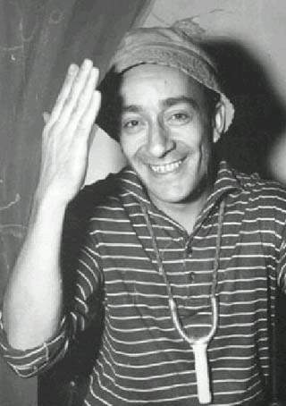 Alberto Olmedo as "Capitán Piluso", one of his most famous characters.